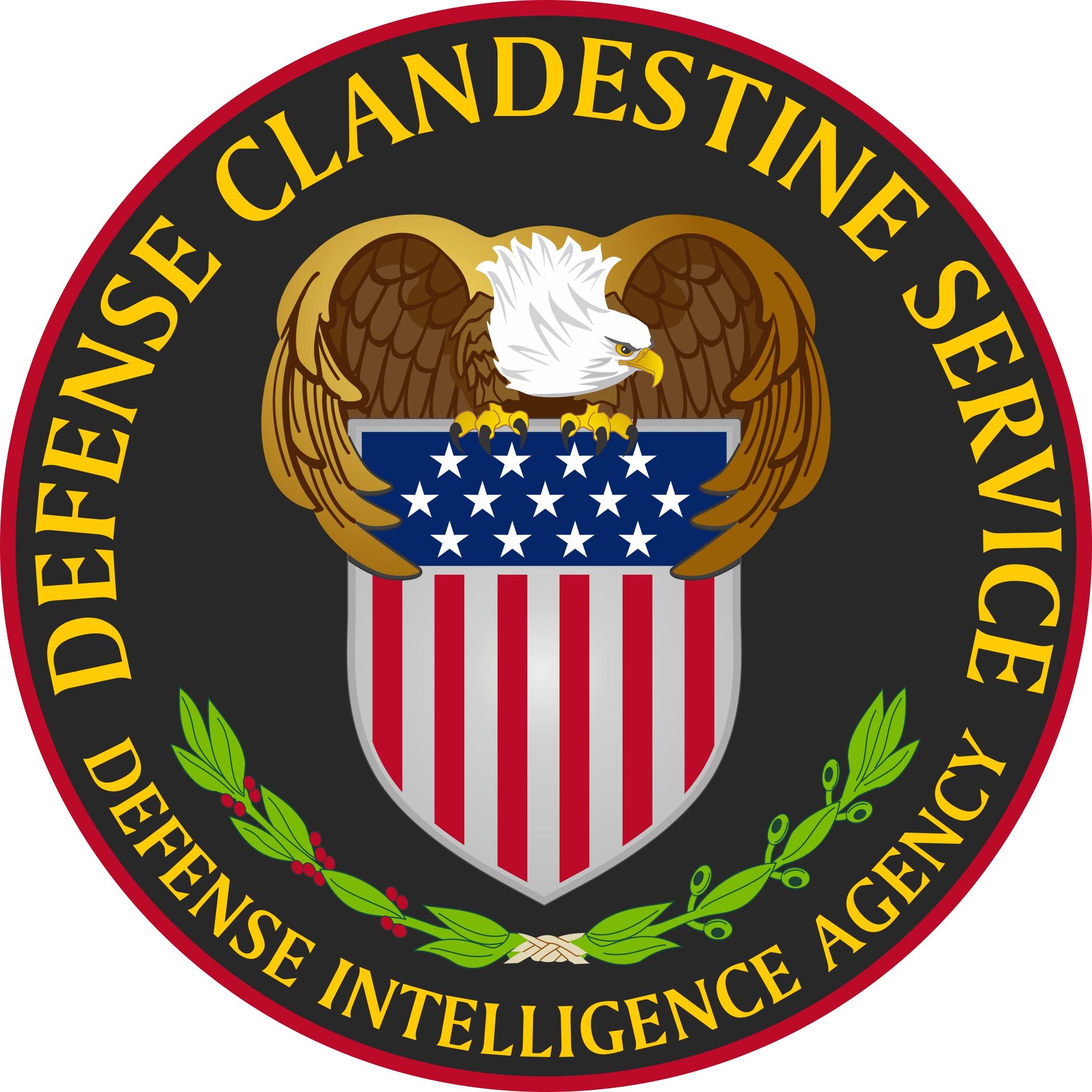 Seal of the Defense Clandestine Service, a component of the U.S. Defense Intelligence Agency